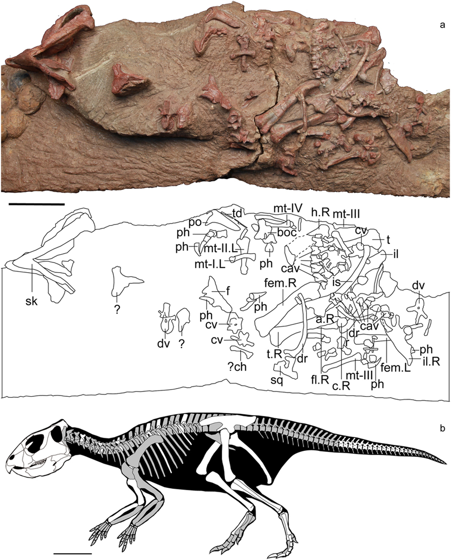 Figure 1: Holotype and skeletal reconstruction of Mosaiceratops azumai, gen. et sp. nov (ZMNH M8856). (a) photograph and line drawing of ZMNH M8856; (b) skeletal reconstruction showing preserved elements in white. Scale bar 10 cm. Abbreviations: a, astragalus; boc, basioccipital; c, calcaneum; cav, caudal vertebra; ch, chevron; cv, cervical vertebra; dr, dorsal rib; dv, dorsal vertebra; f, frontal; fem, femur; fl, fibula; h, humerus; il, ilium; is, ischium; L, left; mt, metatarsal; ph, phalanx/phalanges; po, postorbital; R, right; sk, skull; sq, squamosal; t, tibia; td, tendon; ?, undiagnostic remains.